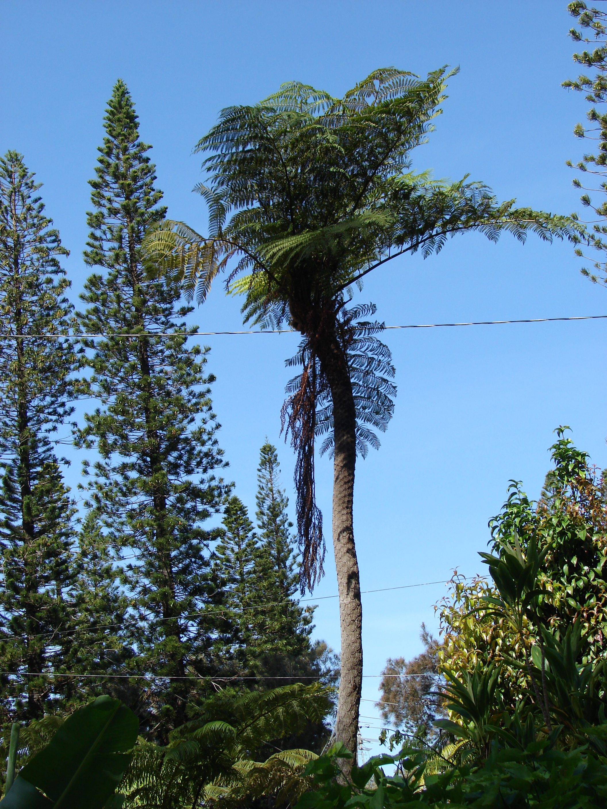 Sphaeropteris cooperi (habit). Location: Lanai, Lanai City